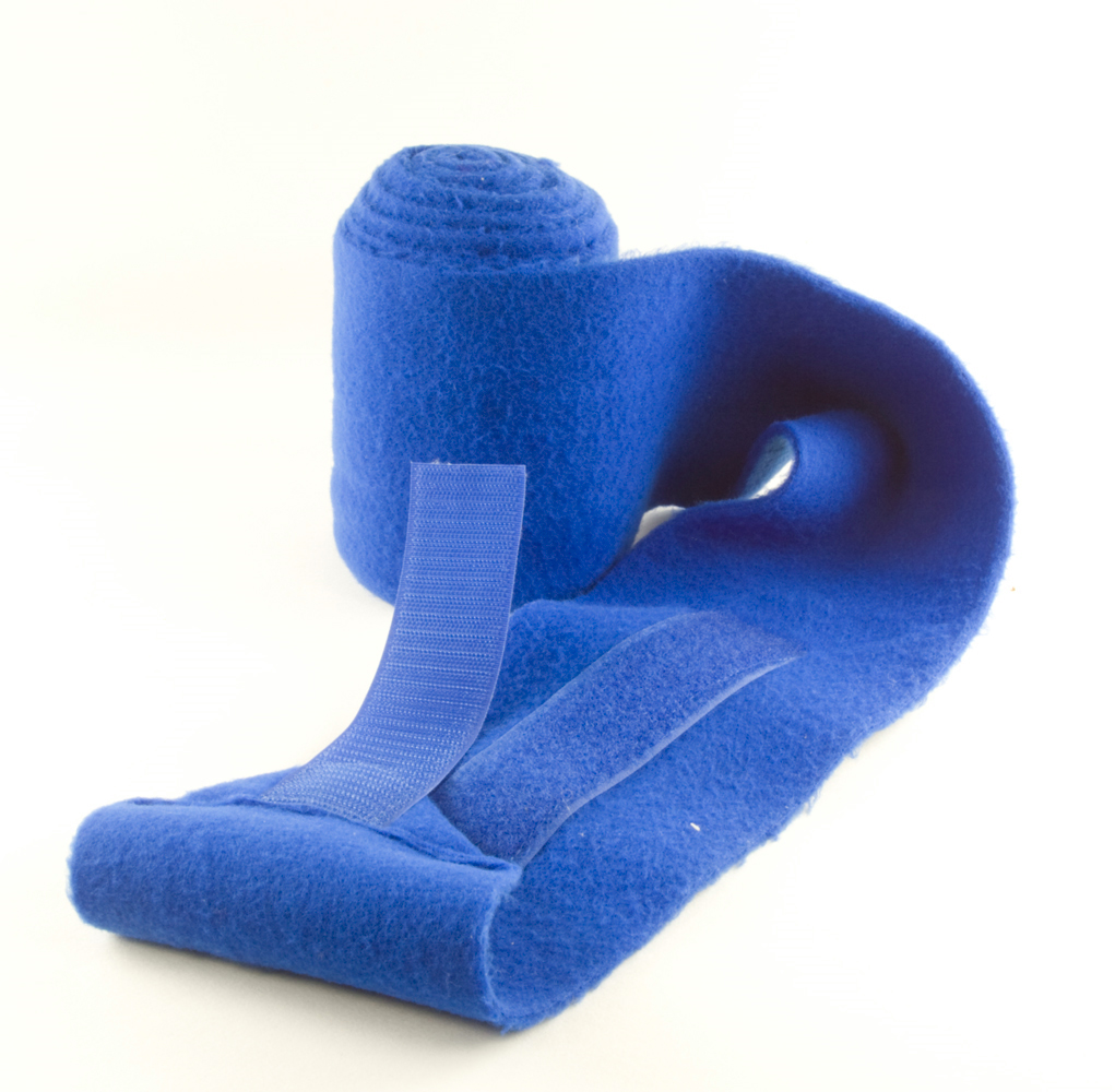 Blue fuzzy horse leg bandages